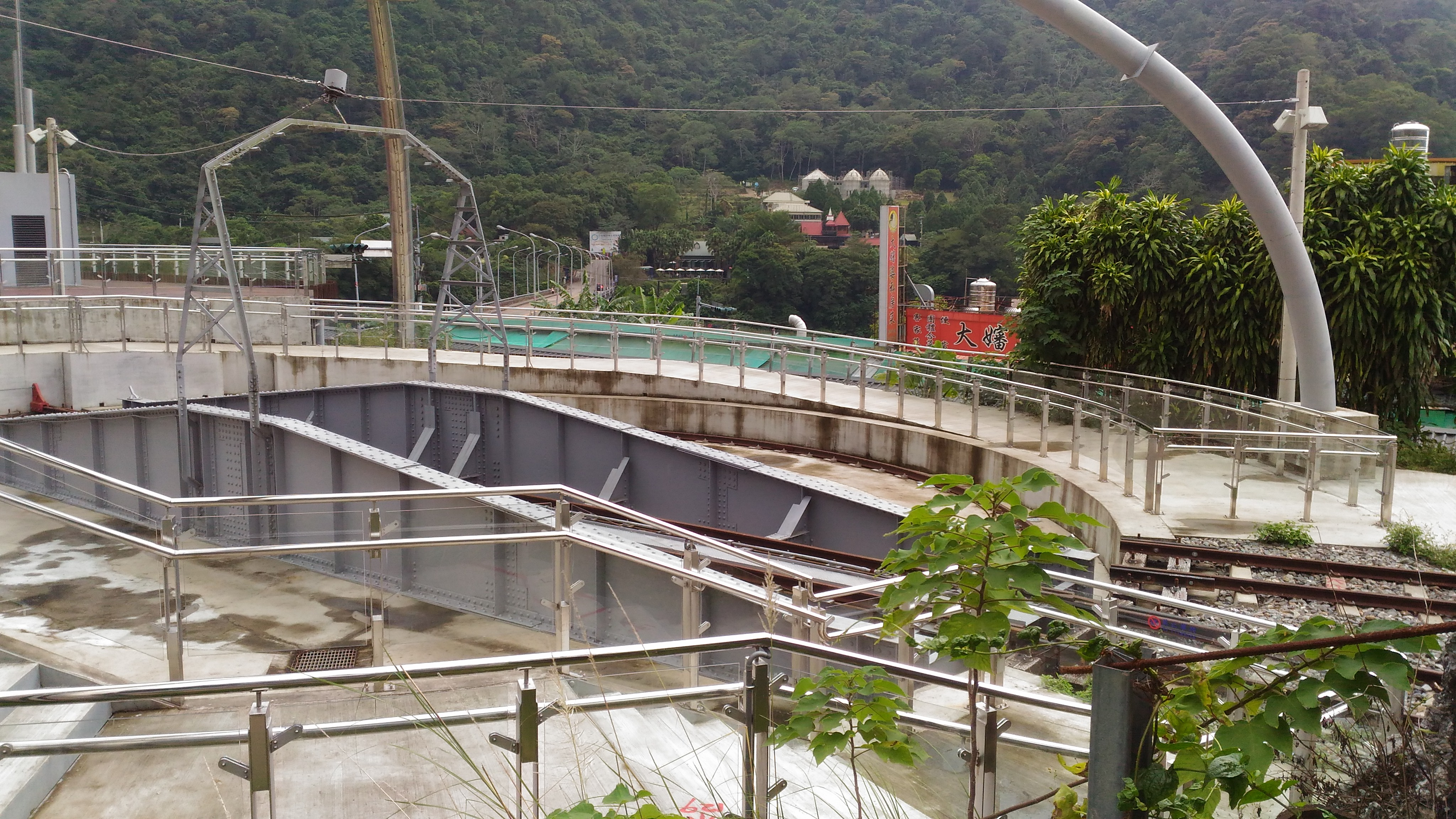 Turntable at Neiwan Station